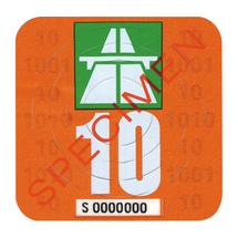 Swiss Highway-Roadtax-Vignette 2010